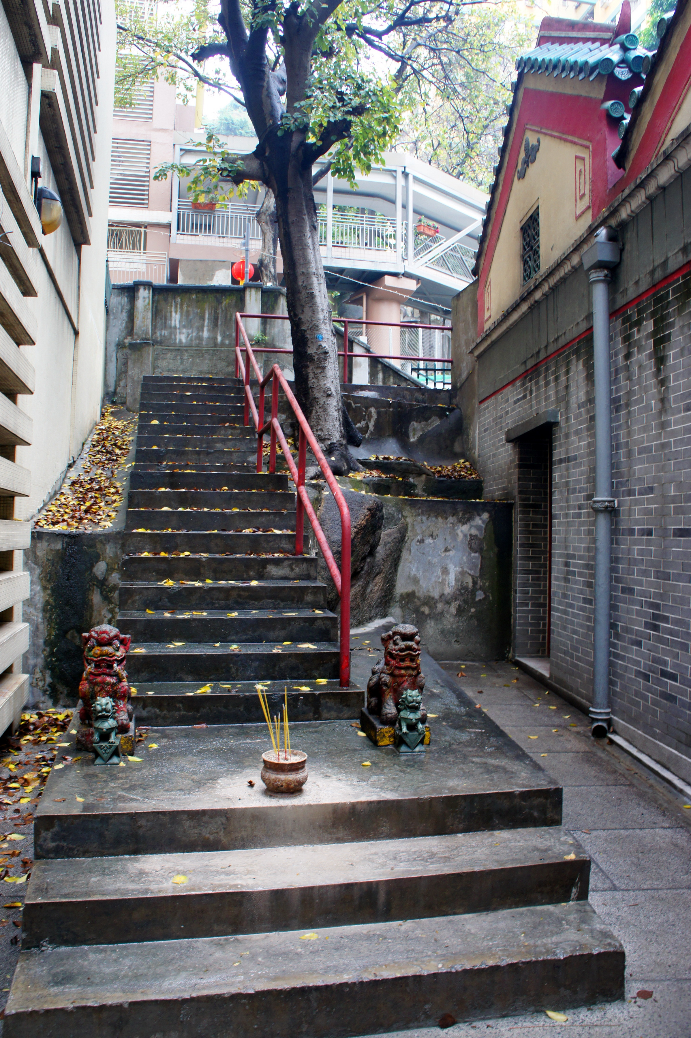 The back of the Shing Wong Temple, Shau Kei Wan, Hong Kong.